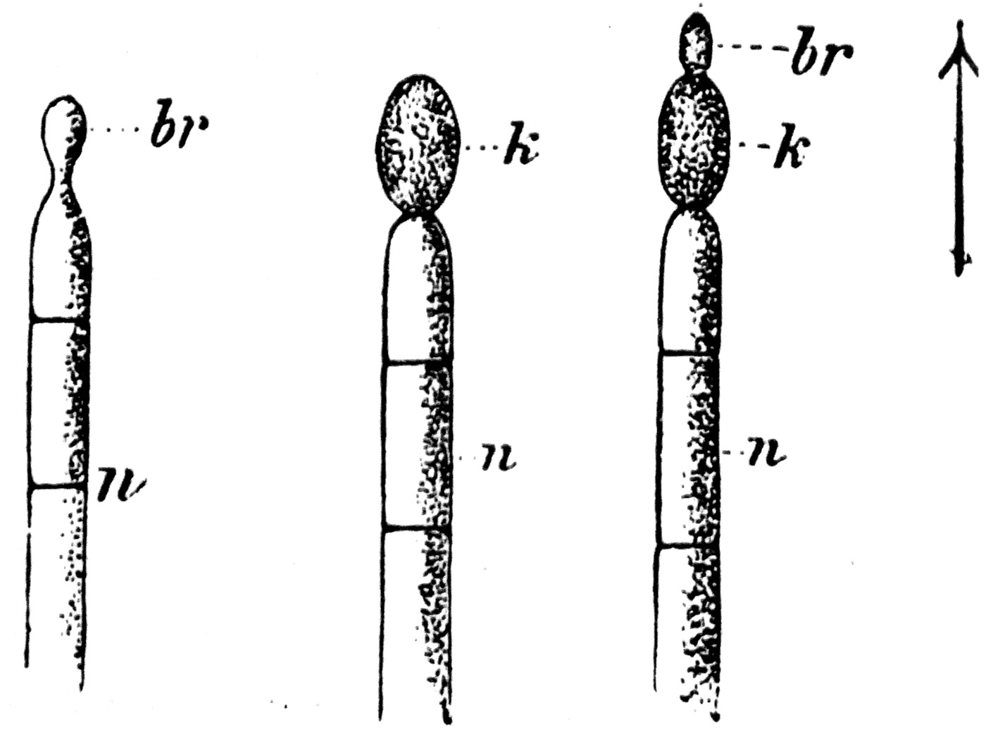 Conidium formation in Otto's Encyclopedia (1897).